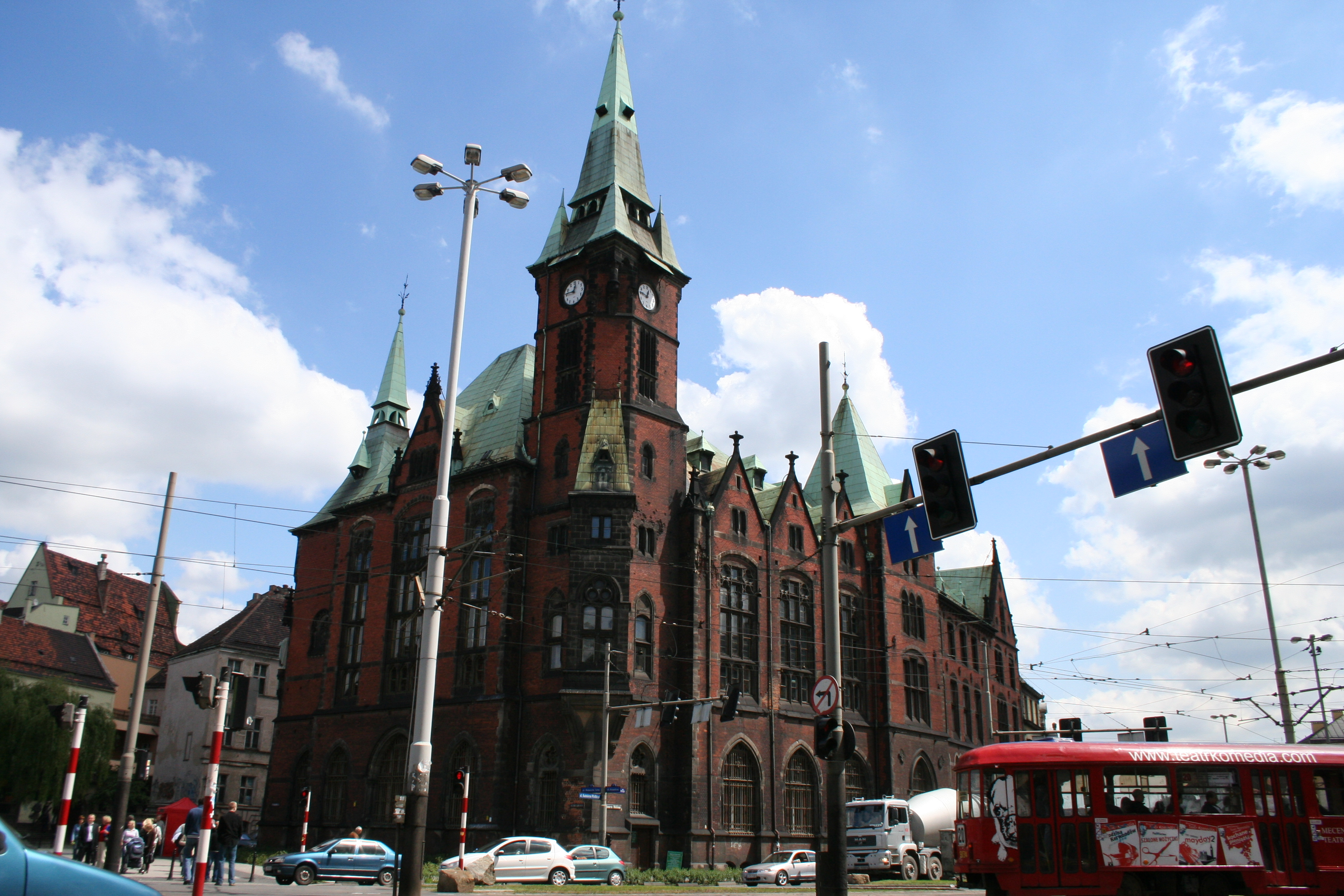 Wroclaw, University Library